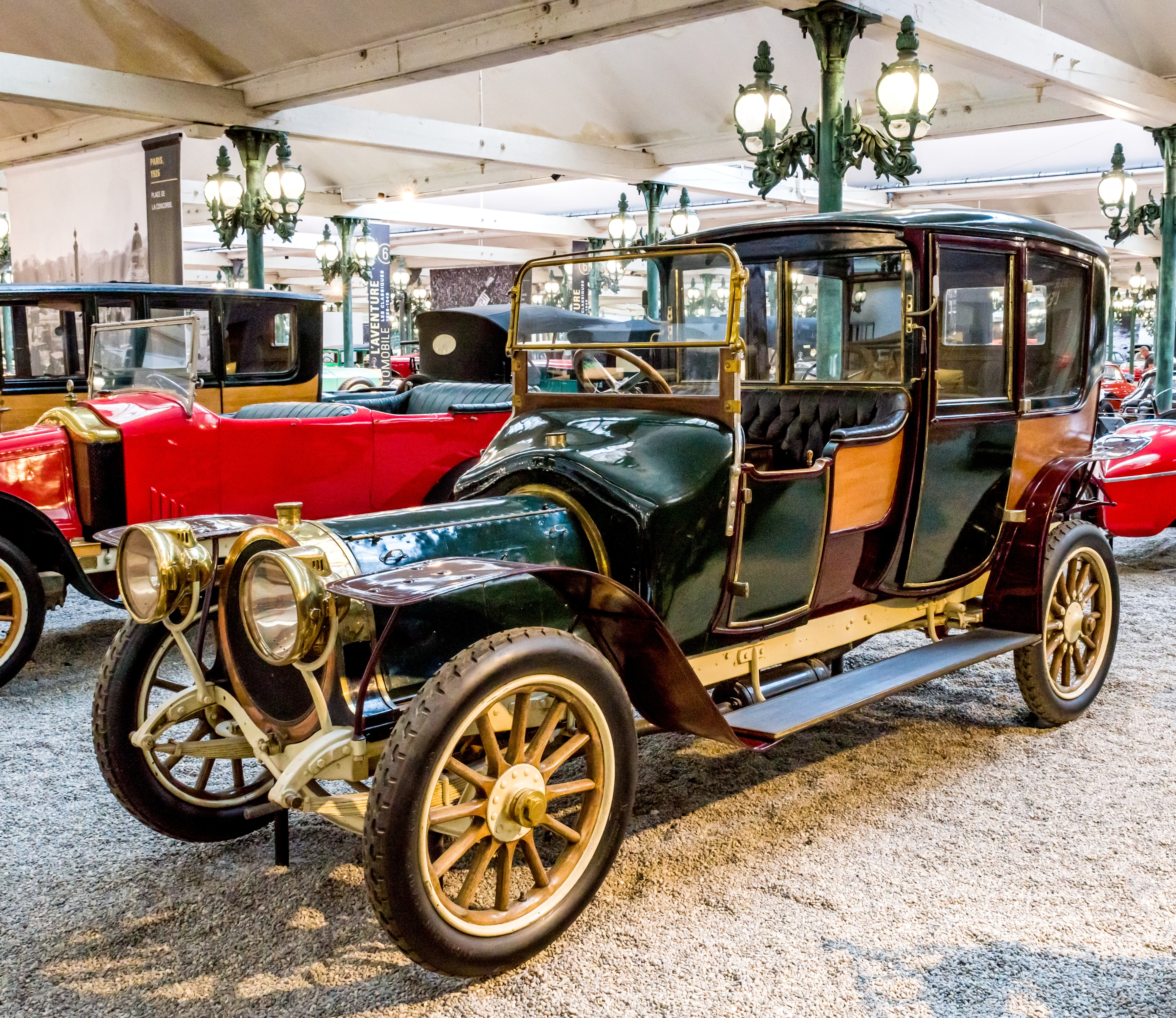 pictures from the Cité de l’Automobile – Musée National – Collection Schlump in Mulhouse, France ptictures from the 10. may 2018